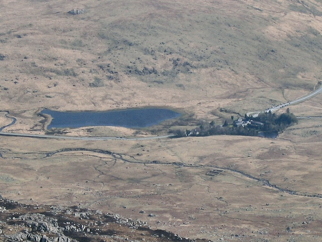 Pen y Gwryd Hotel & Lake Lockwood. This is a long view of the lake and hotel either side of the road near the junction for Llanberis pass - as seen from atop Glyder Fach.